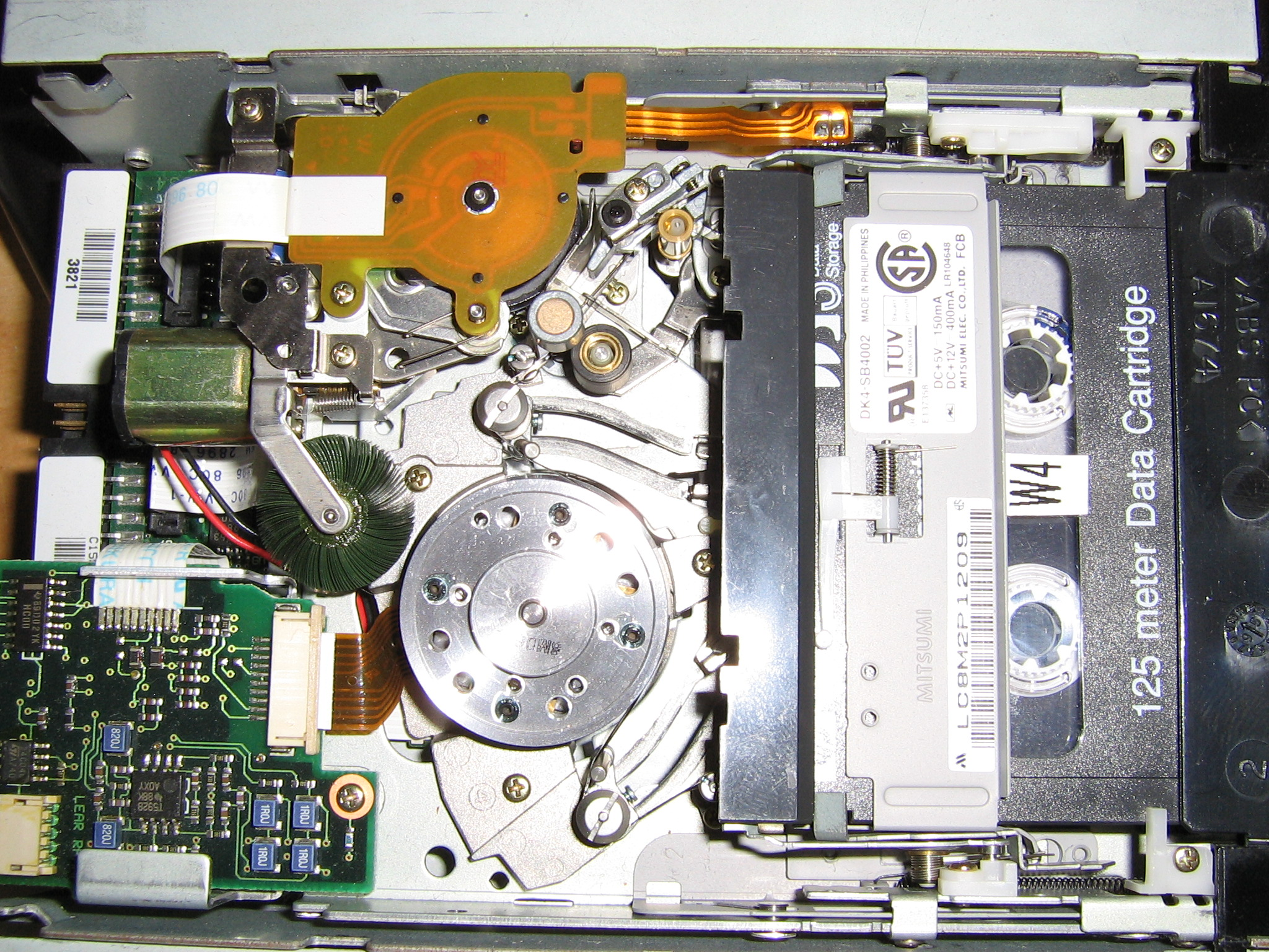 inside view of a dds drive